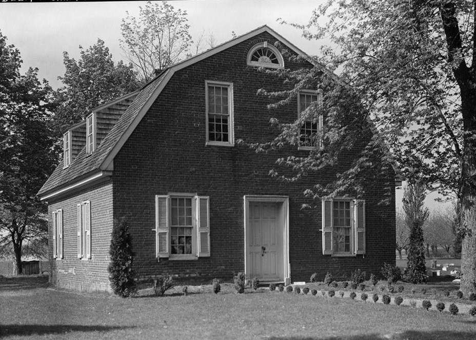 Camden Friends Meetinghouse, East Camden-Wyoming Avenue, Camden (Kent County, Delaware) cropped This file comes from the Historic American Buildings Survey (HABS), Historic American Engineering Record (HAER) or Historic American Landscapes Survey (HALS). These are programs of the National Park Service established for the purpose of documenting historic places. Records consist of measured drawings, archival photographs, and written reports. When reusing please credit: Library of Congress, Prints & Photographs Division, DEL,1-CAM,2-1 This tag does not indicate the copyright status of the attached work. A normal copyright tag is still required. See Commons:Licensing for more information. English | +/− This work is in the public domain in the United States because it is a work prepared by an officer or employee of the United States Government as part of that person’s official duties under the terms of Title 17, Chapter 1, Section 105 of the US Code. See Copyright. Note: This only applies to original works of the Federal Government and not to the work of any individual U.S. state, territory, commonwealth, county, municipality, or any other subdivision. This template also does not apply to postage stamp designs published by the United States Postal Service since 1978. (See § 313.6(C)(1) of Compendium of U.S. Copyright Office Practices). It also does not apply to certain US coins; see The US Mint Terms of Use. This file has been identified as being free of known restrictions under copyright law, including all related and neighboring rights. Object location39° 06′ 52″ N, 75° 32′ 54″ W